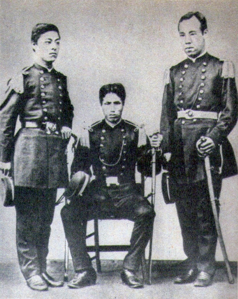 Japanese Policeman circa 1875